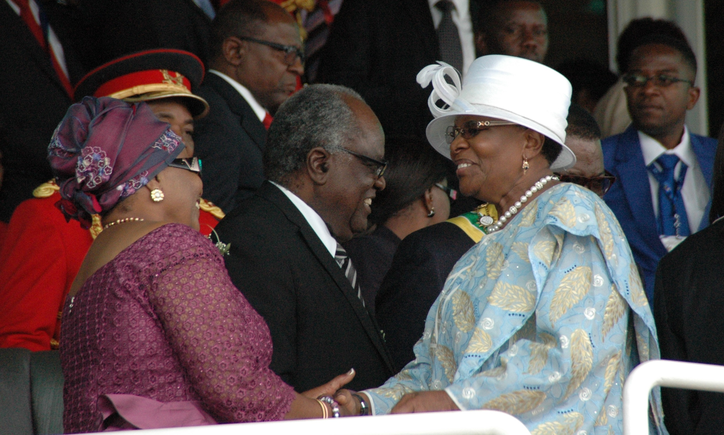 Netumbo Nandi-Ndaitwah (right), Penehupifo Pohamba (left)